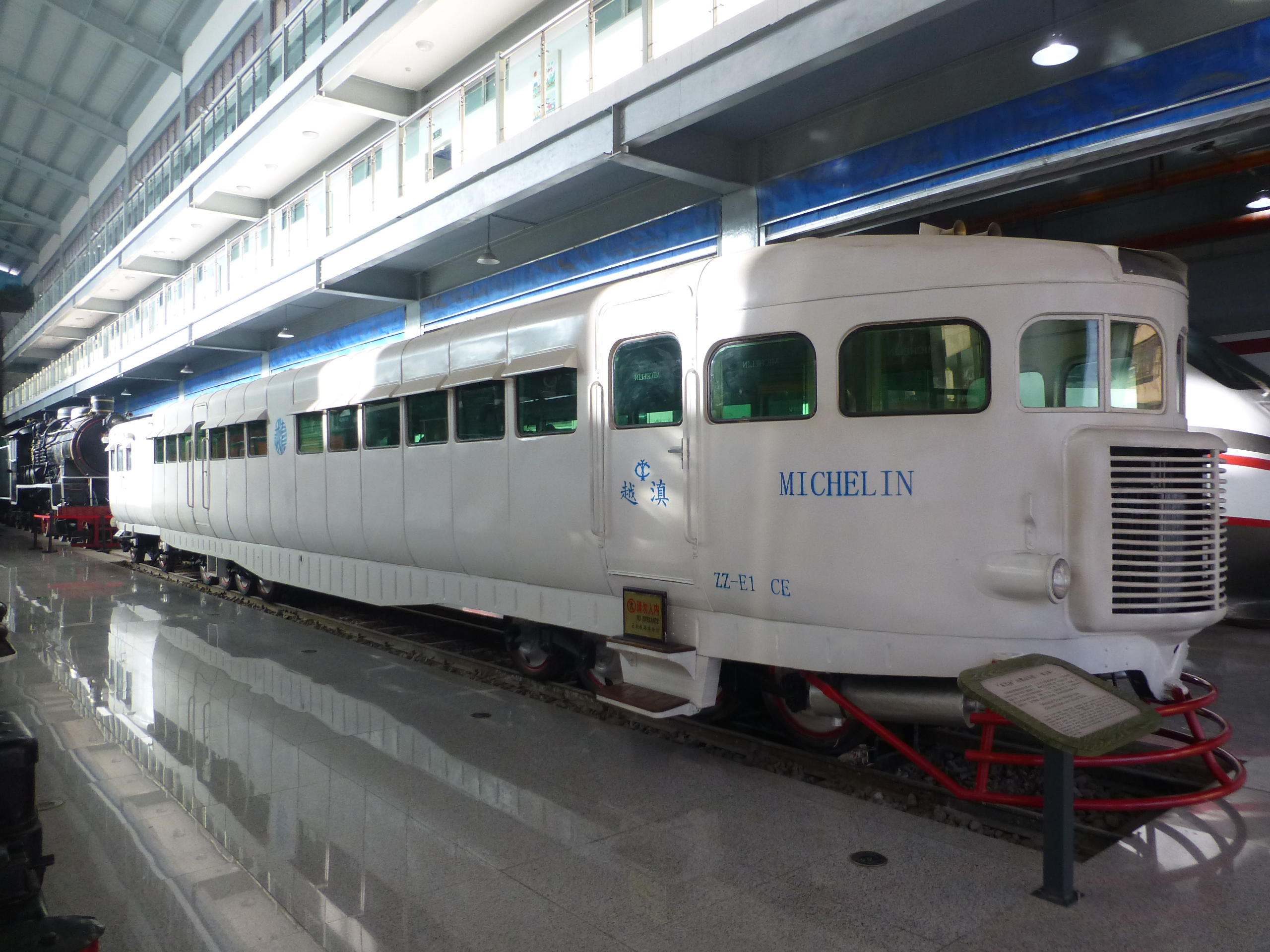 Rolling stock on display in the Yunnan Railway Museum (Kunming North Railway Station)